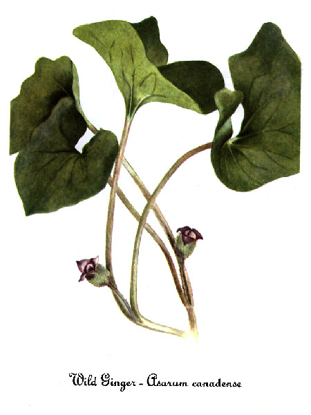 Watercolor painting of Asarum_canadense-2.